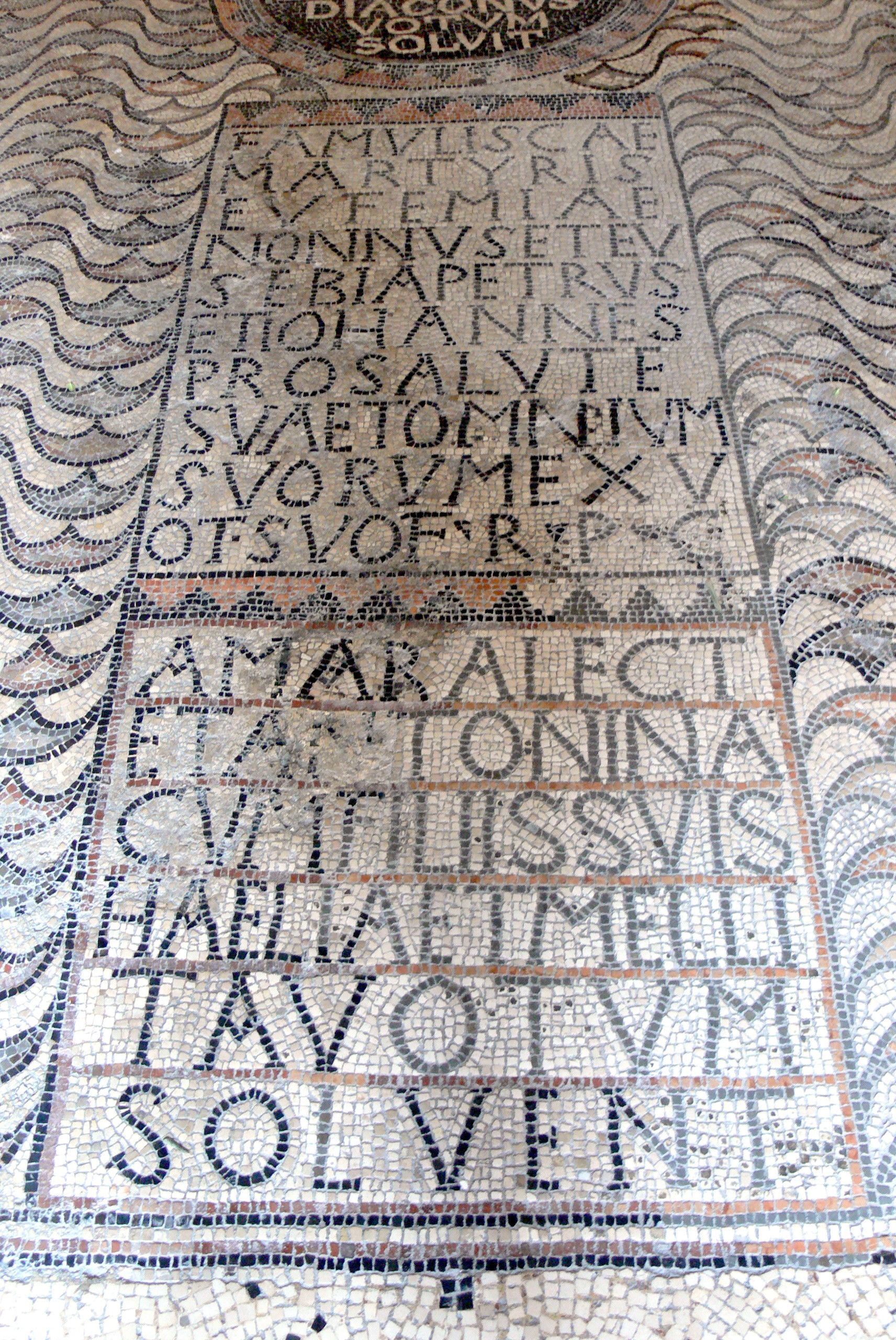 Grado, Italy. Sant'Eufemia: Mosaic ( 6th century ) with latin votive inscription.